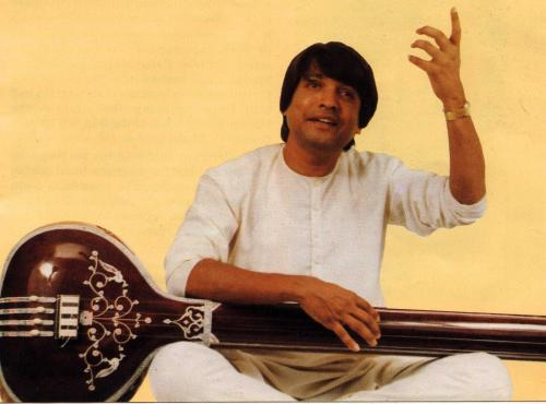 Image of Pandit Ganapati Bhat - A Great Hindustani musician